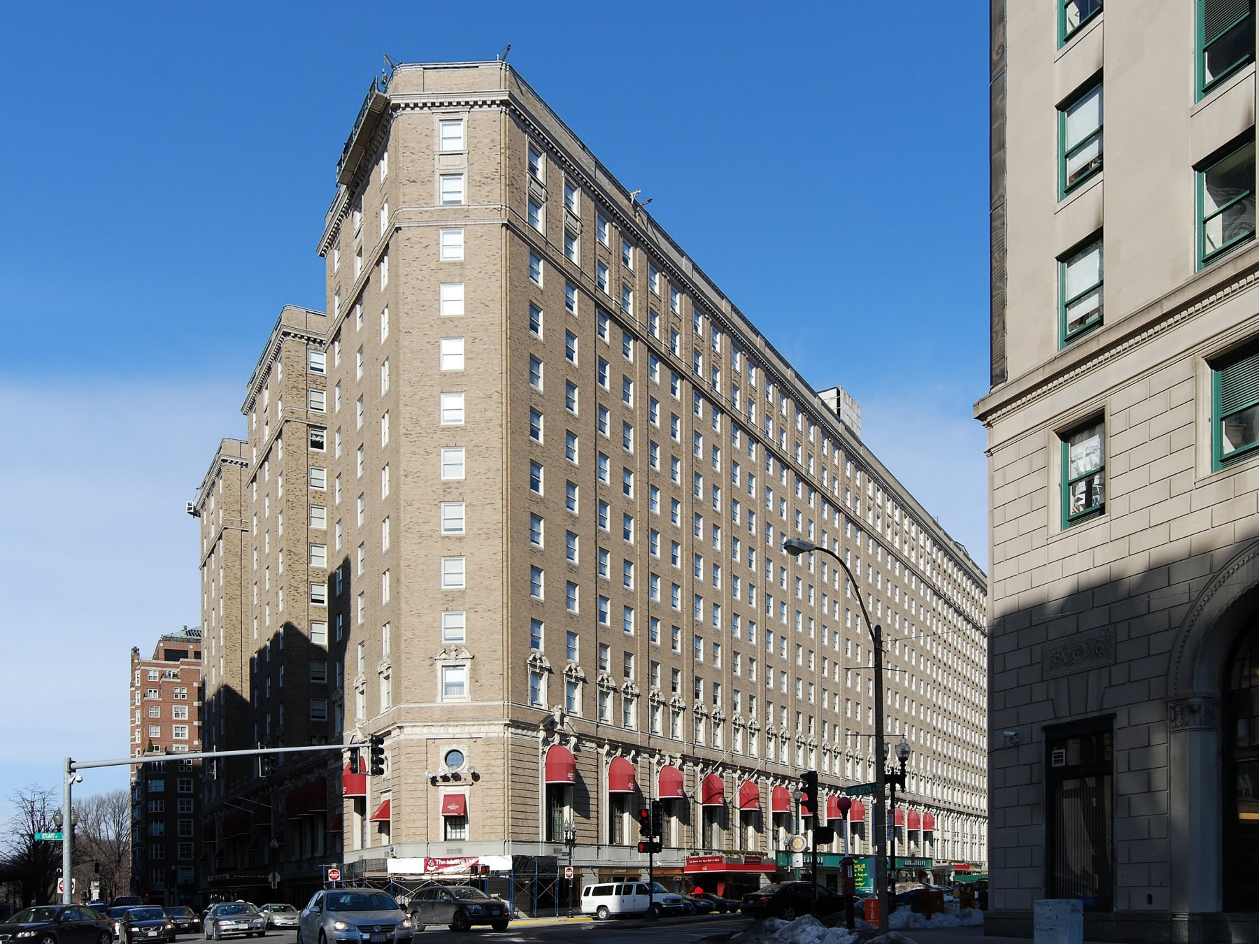 Park Plaza Hotel & Towers, Boston, Massachusetts